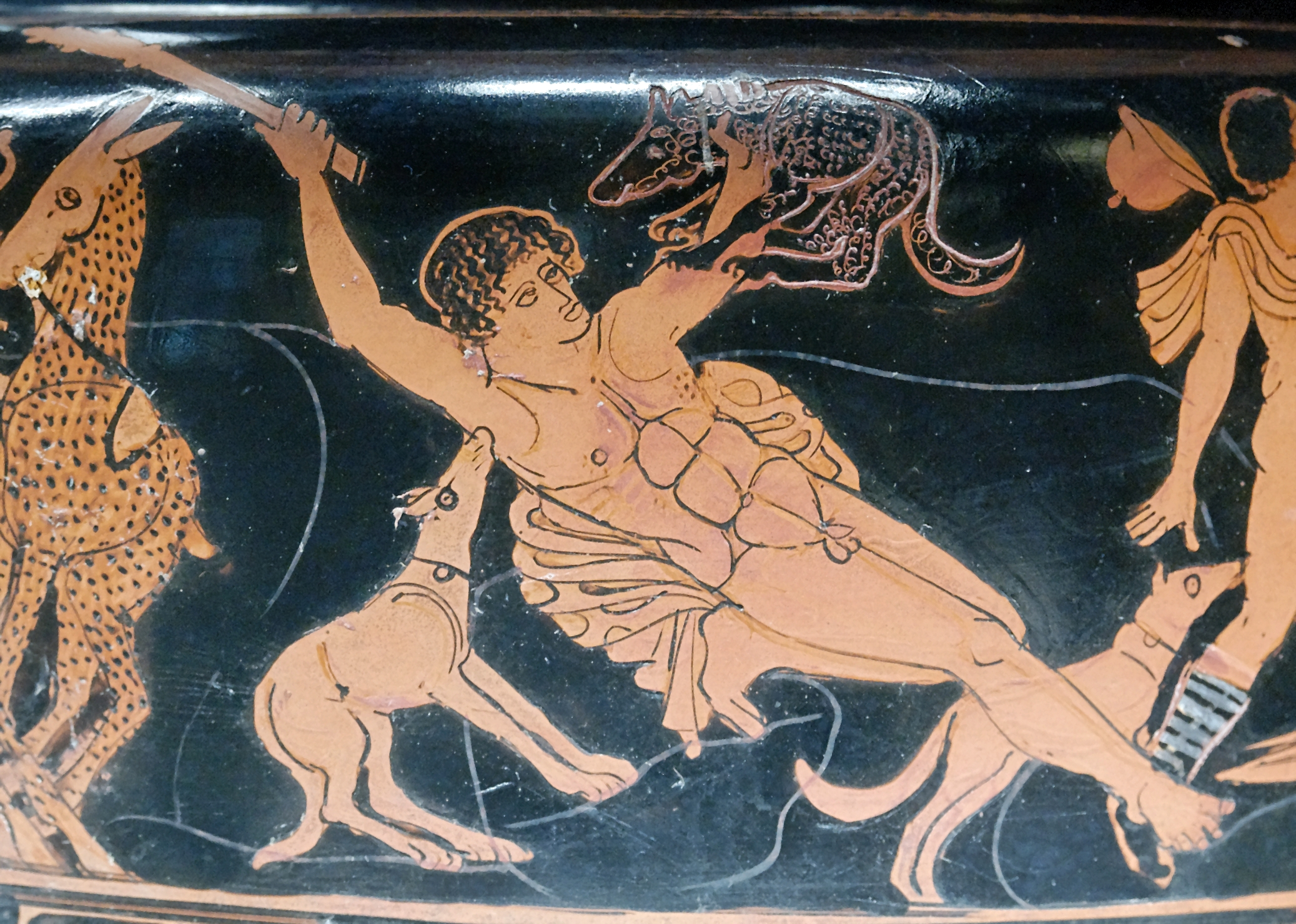 Actaeon's death, detail. Side A from an Attic red-figure volute crater, ca. 450–440 BC.